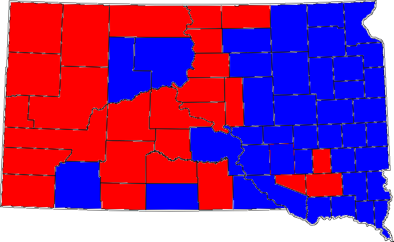 1996 South Dakota Senate election results by county.